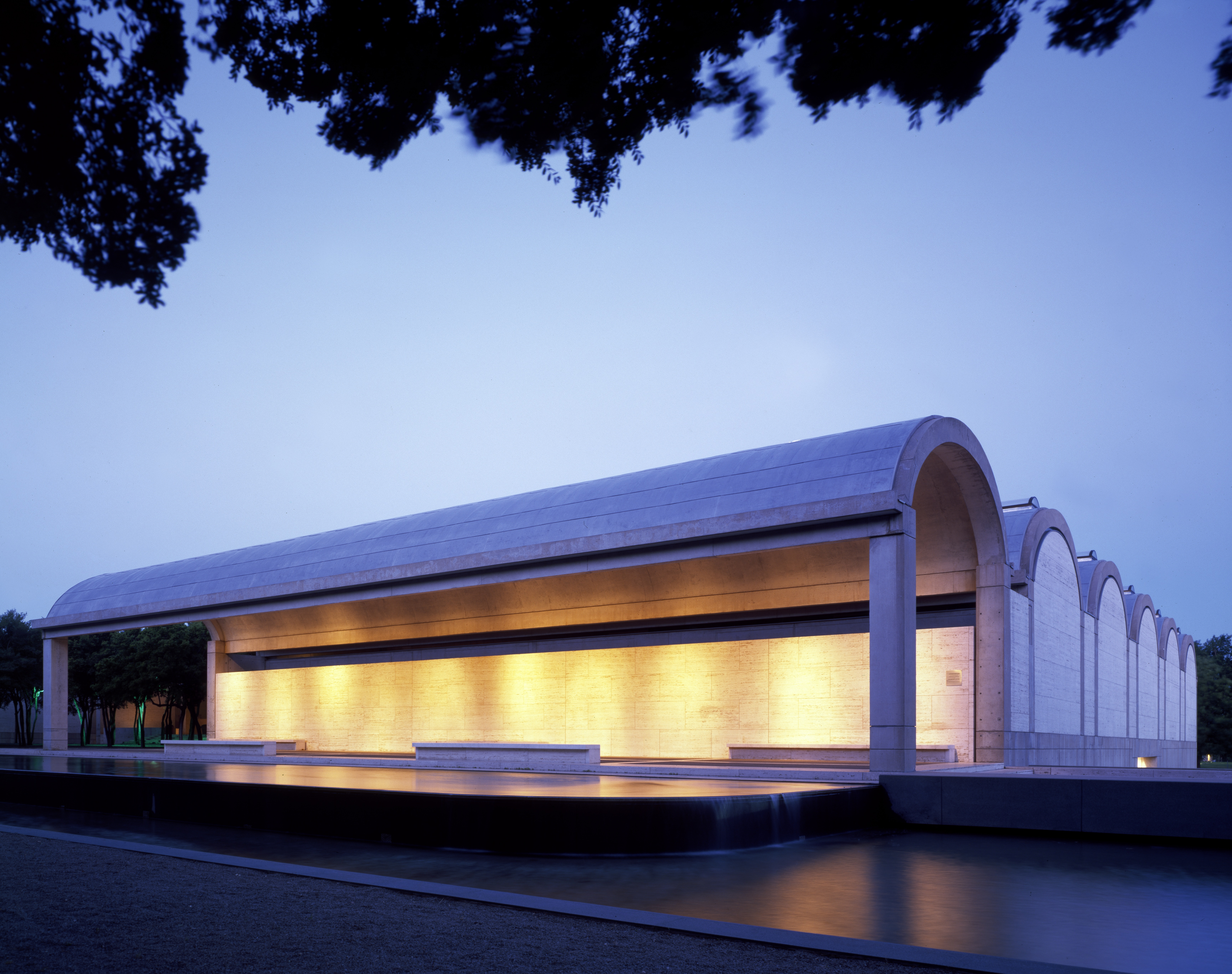 South wing of the Kimbell Art Museum at dusk, Fort Worth, Texas